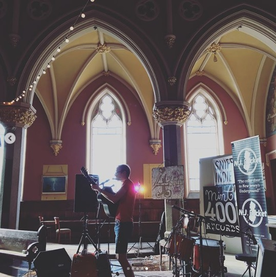 The Duke Of Norfolk performing at the 2017 North Jersey Indie Rock Fest.